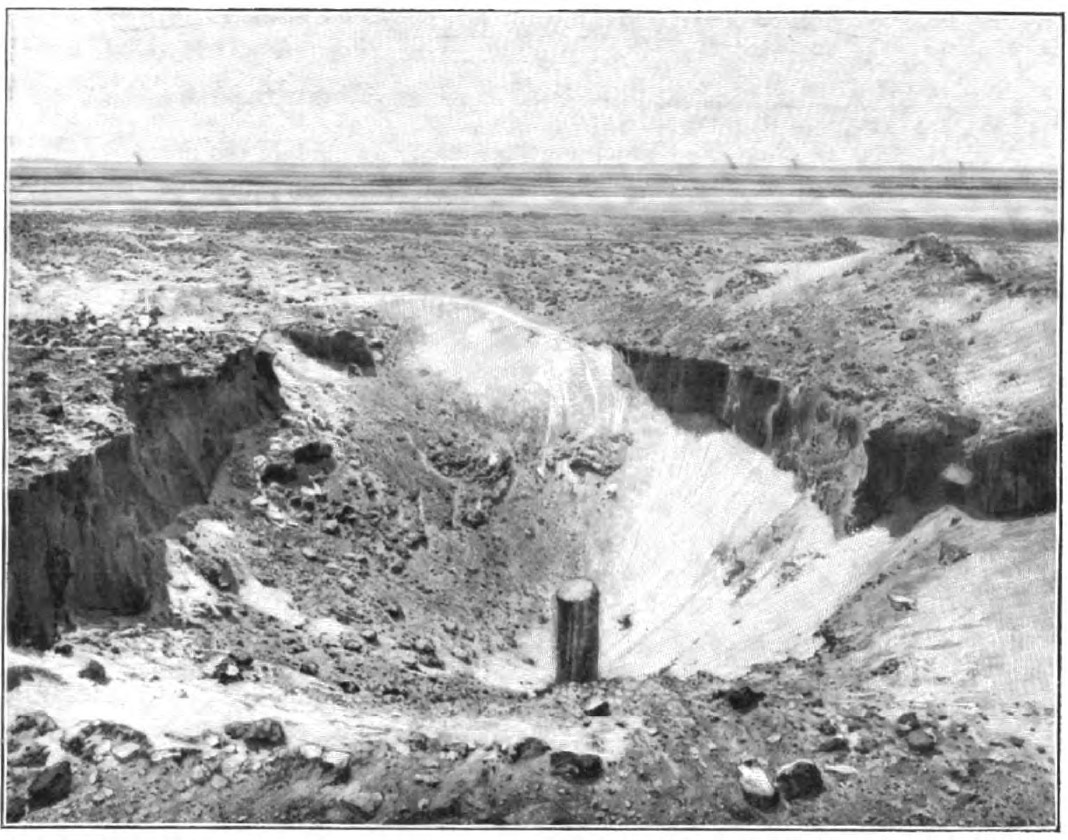 A picture of an excavation site in shata (Damietta). It shows what Albert Gayet believed to be the encampment location of "John of Brienne", Found in an article titled "Coins d'Egypte ignores, By Albert Gayet"